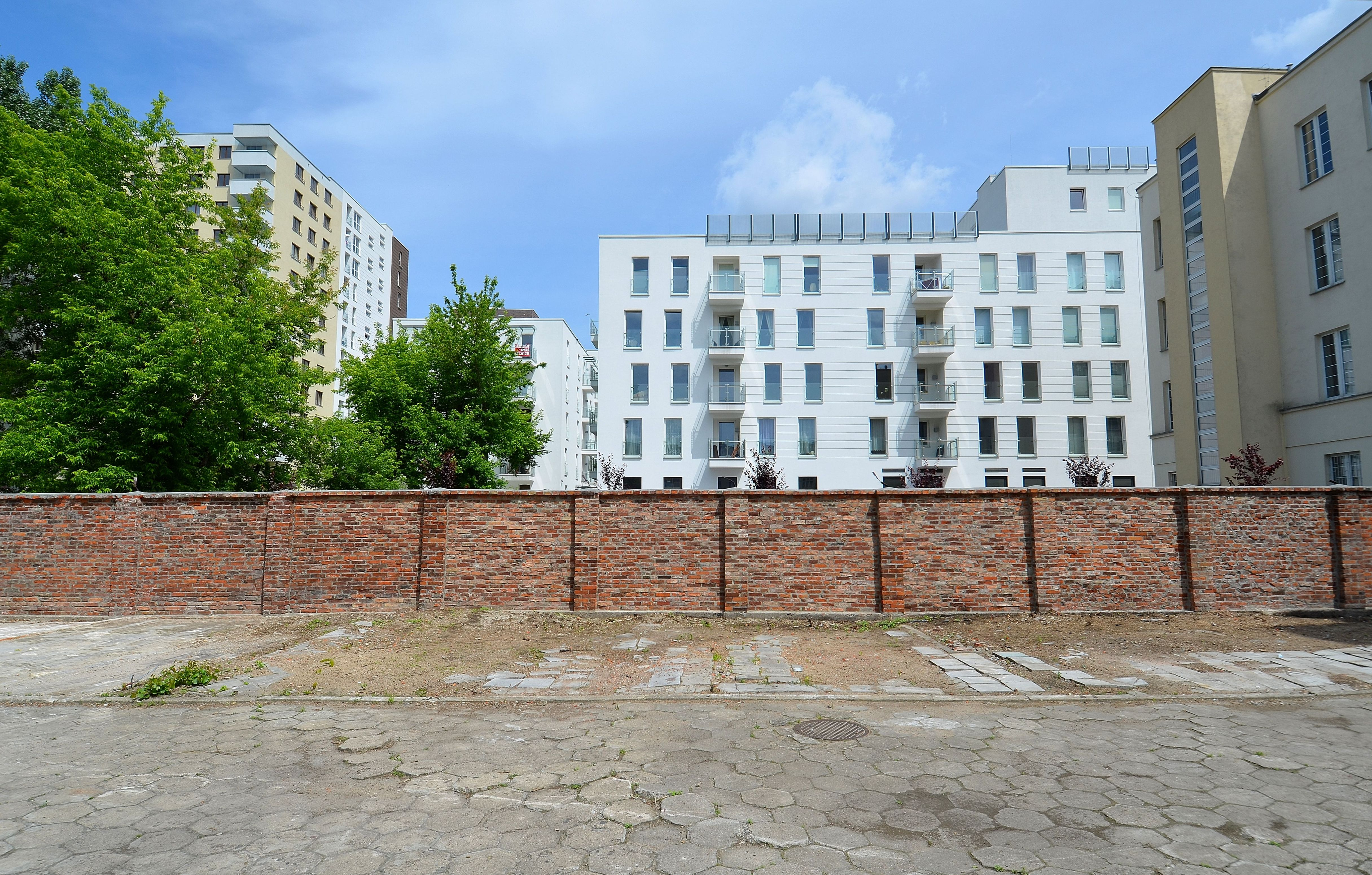 Reconstructed wall of former Umschlagplatz behind Economic College at 10 Stawki Street in Warsaw